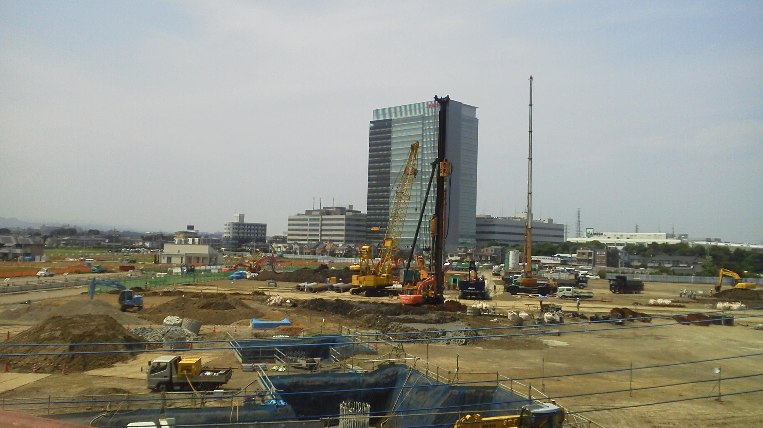 A photo of the land readjustment project of Ebina Station west exit in 2014 Jun.Ebina-shi,Kanagawa,Japan.